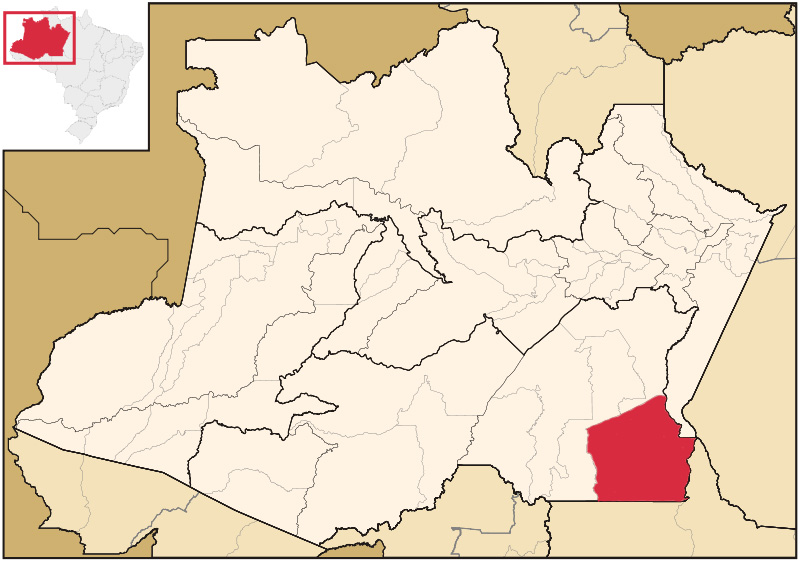 Map of Amazonas highlighting Apuí.